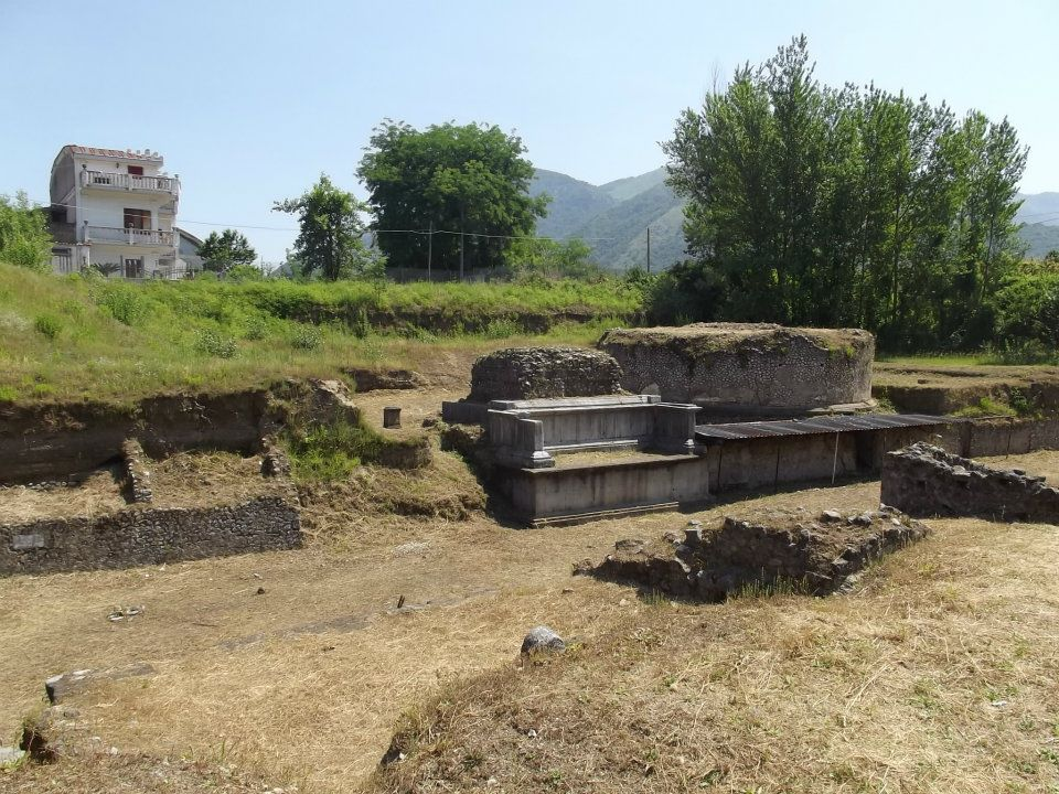 Necropolis of Pizzone, in Nocera Superiore, Italy.